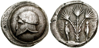 Sicilia, Camarina. Circa 492-484 BC. AR Didrachm (8.72 gm). Circular shield embossed with Corinthian helmet KAM[A]-RI, dwarf palm tree between two greaves.